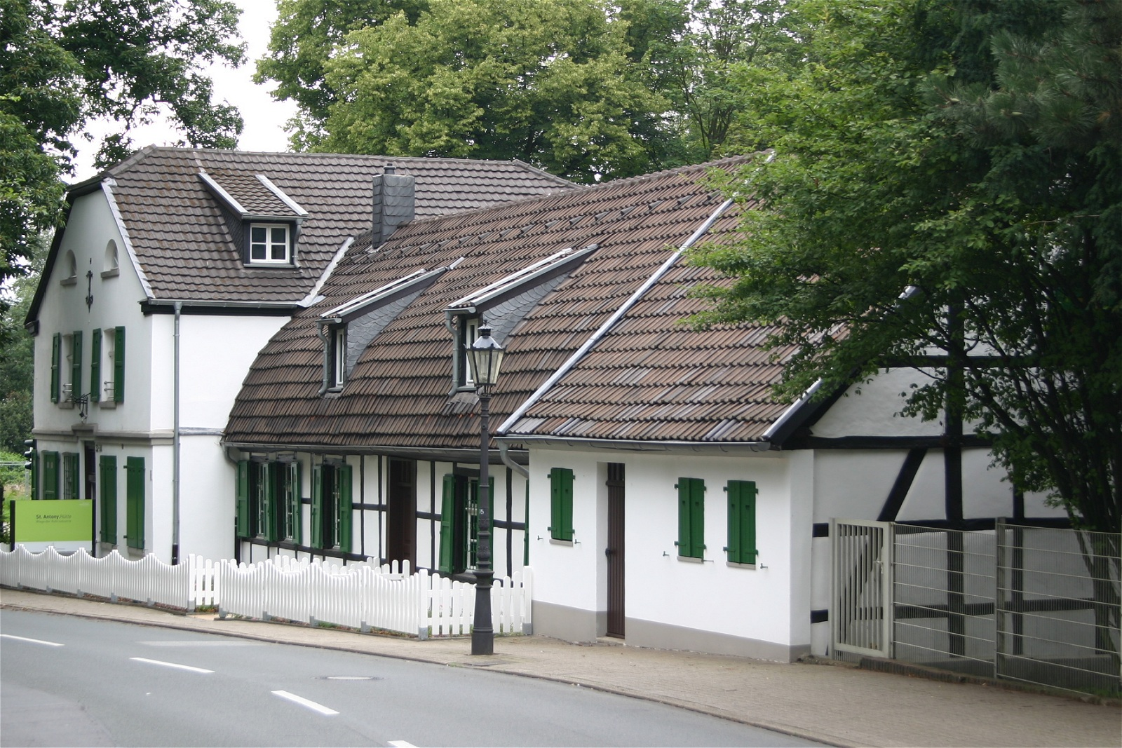 St.-Antony-Huette, Oberhausen (Germany), said to be the first ironworks in the Ruhr Area